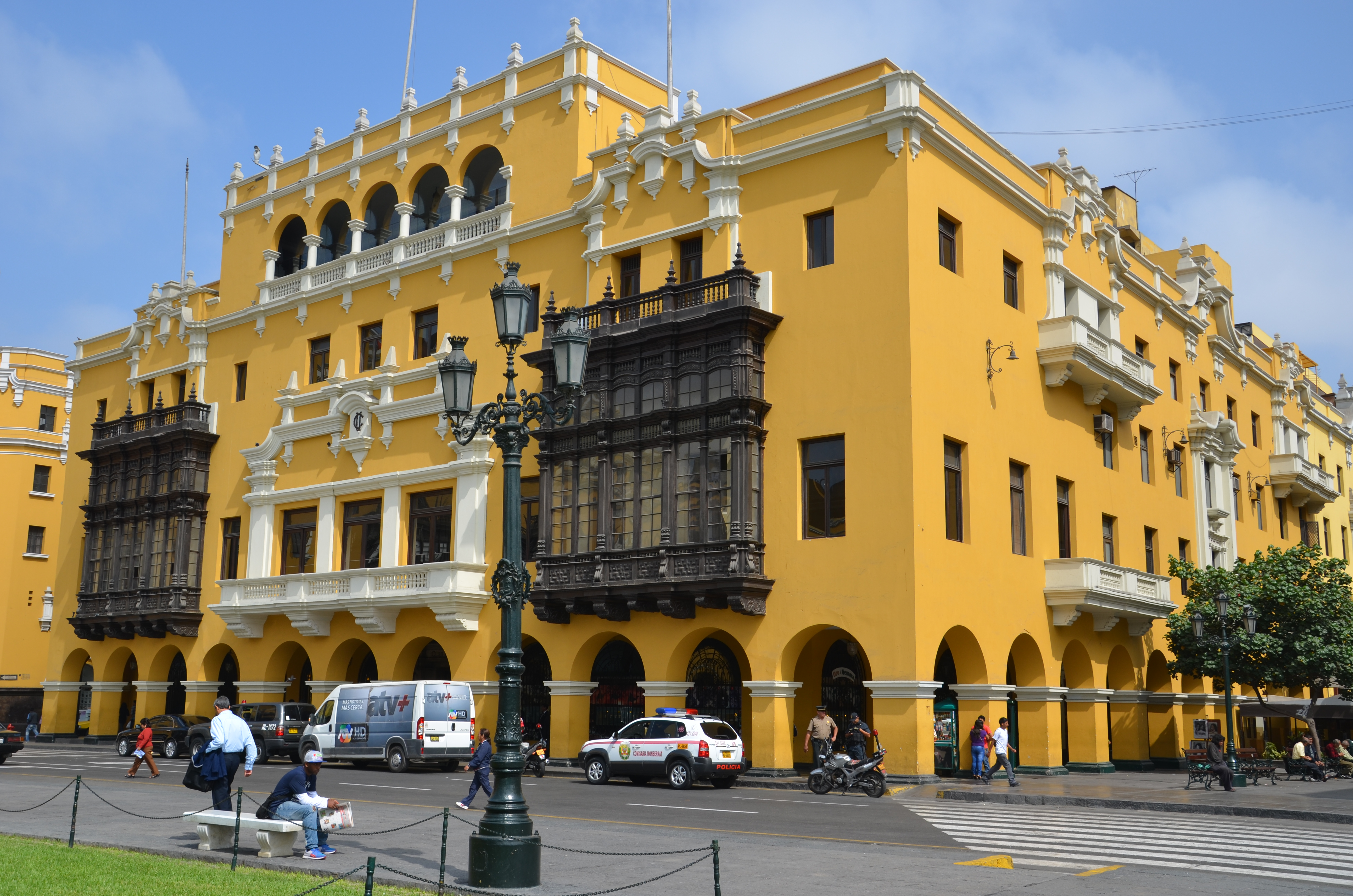 Lima, Peru - Plaza de Armas.